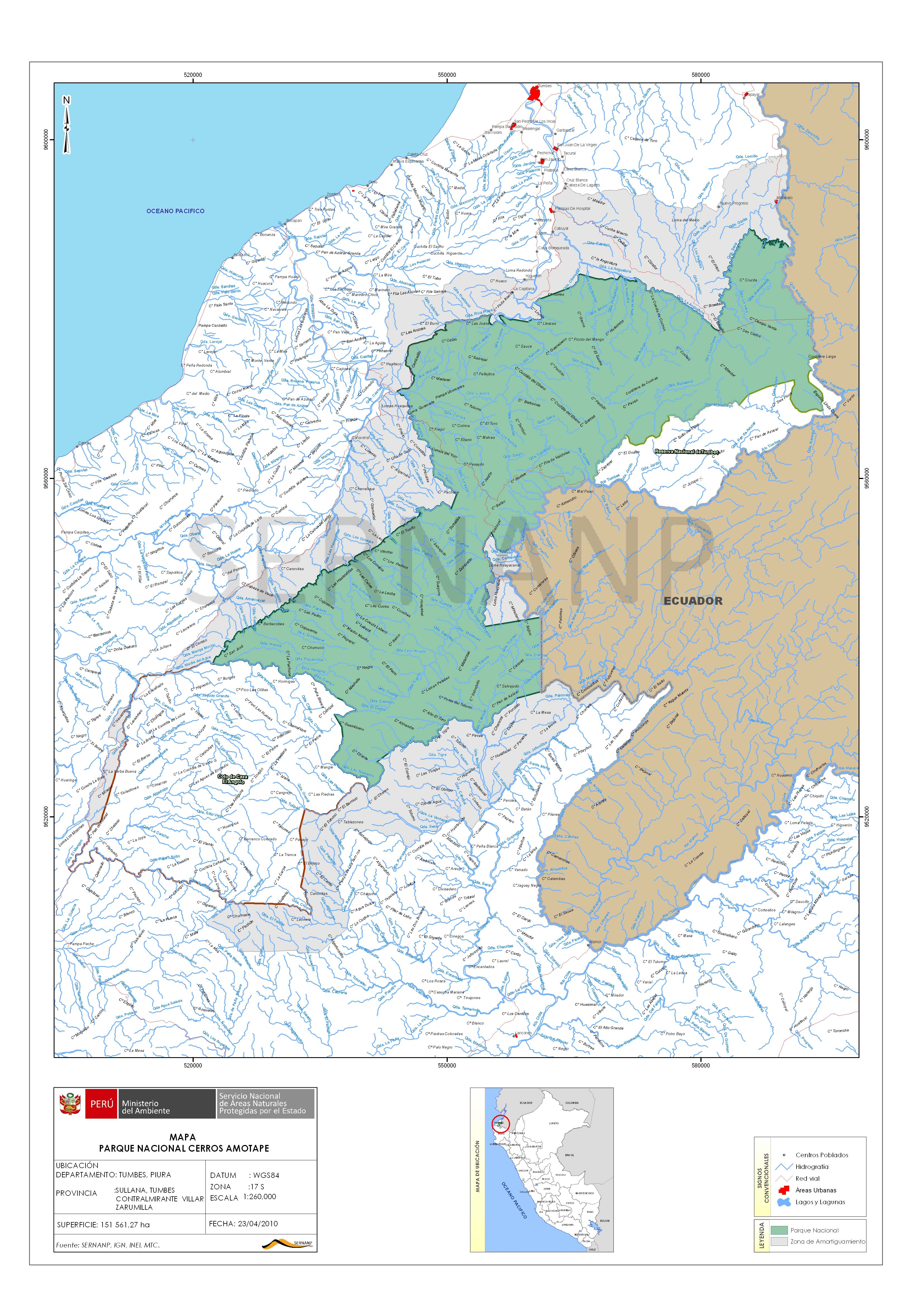 SERNANP Map of Amotape Hills National Park